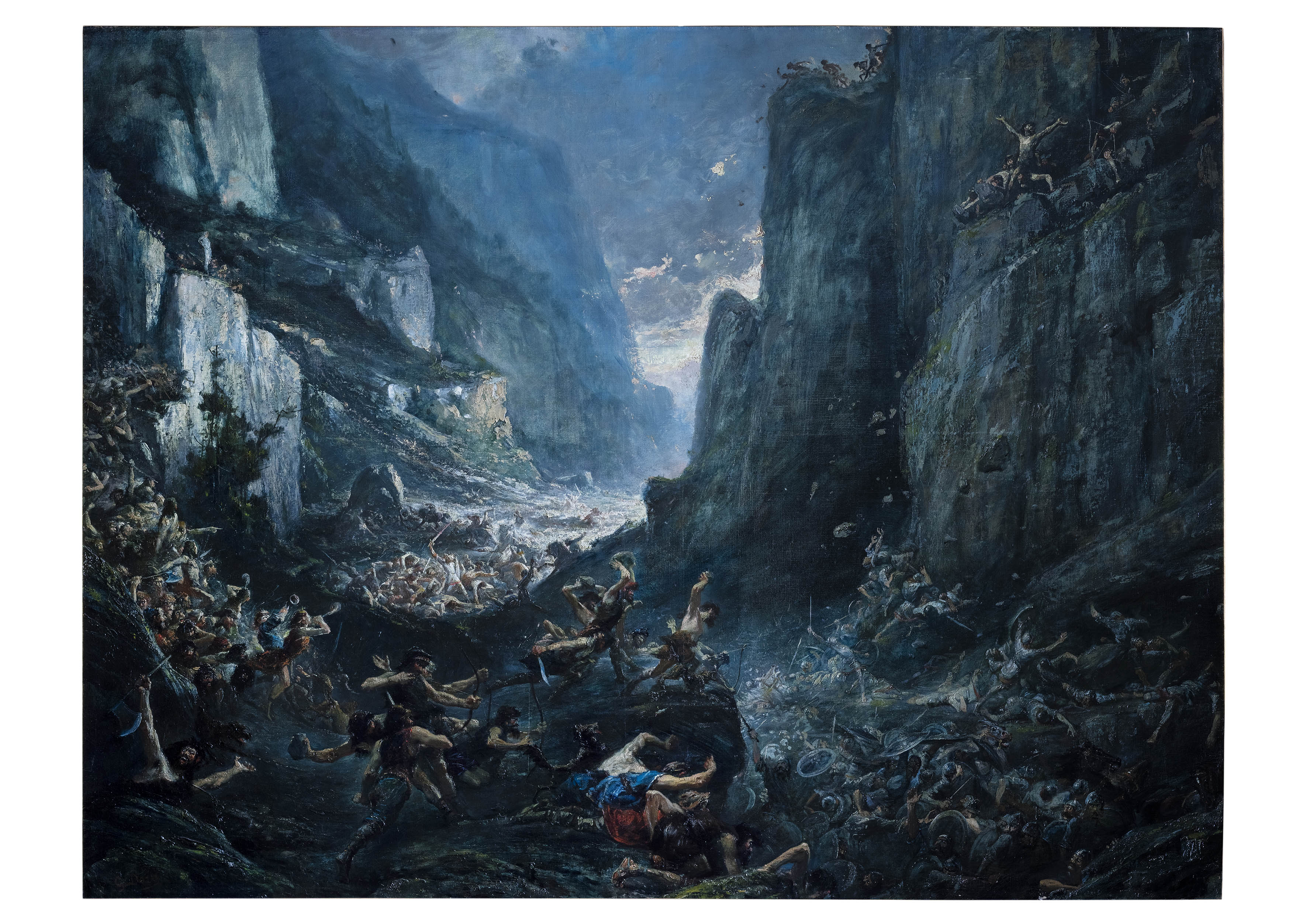 Roland at Roncevaux, oil on canvas, 44 7/8 × 58 11/16, private collection, Paris.